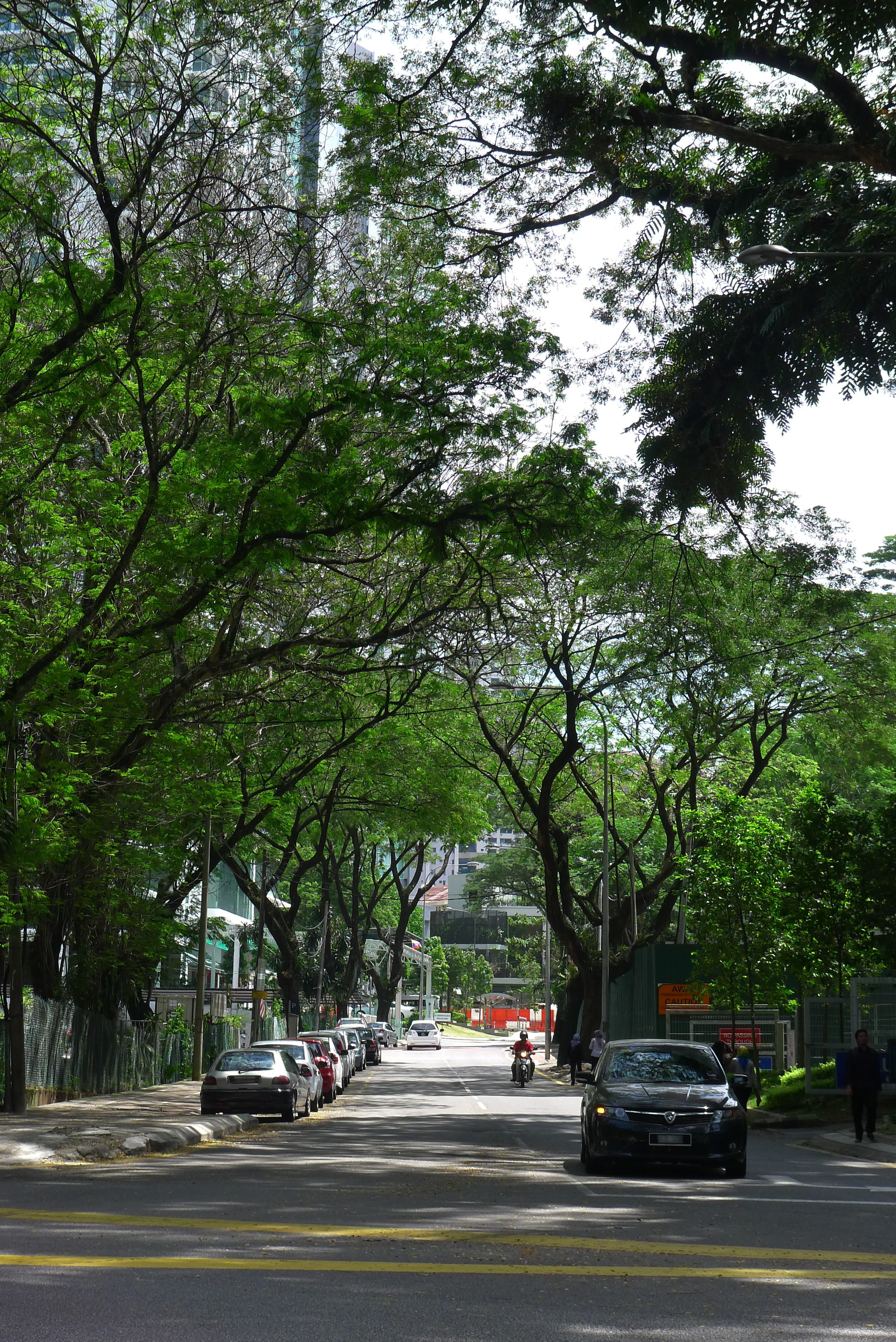 The tree lined Persiaran Raja Chulan road near the leafy downtown neighborhood near Bukit Ceylon.